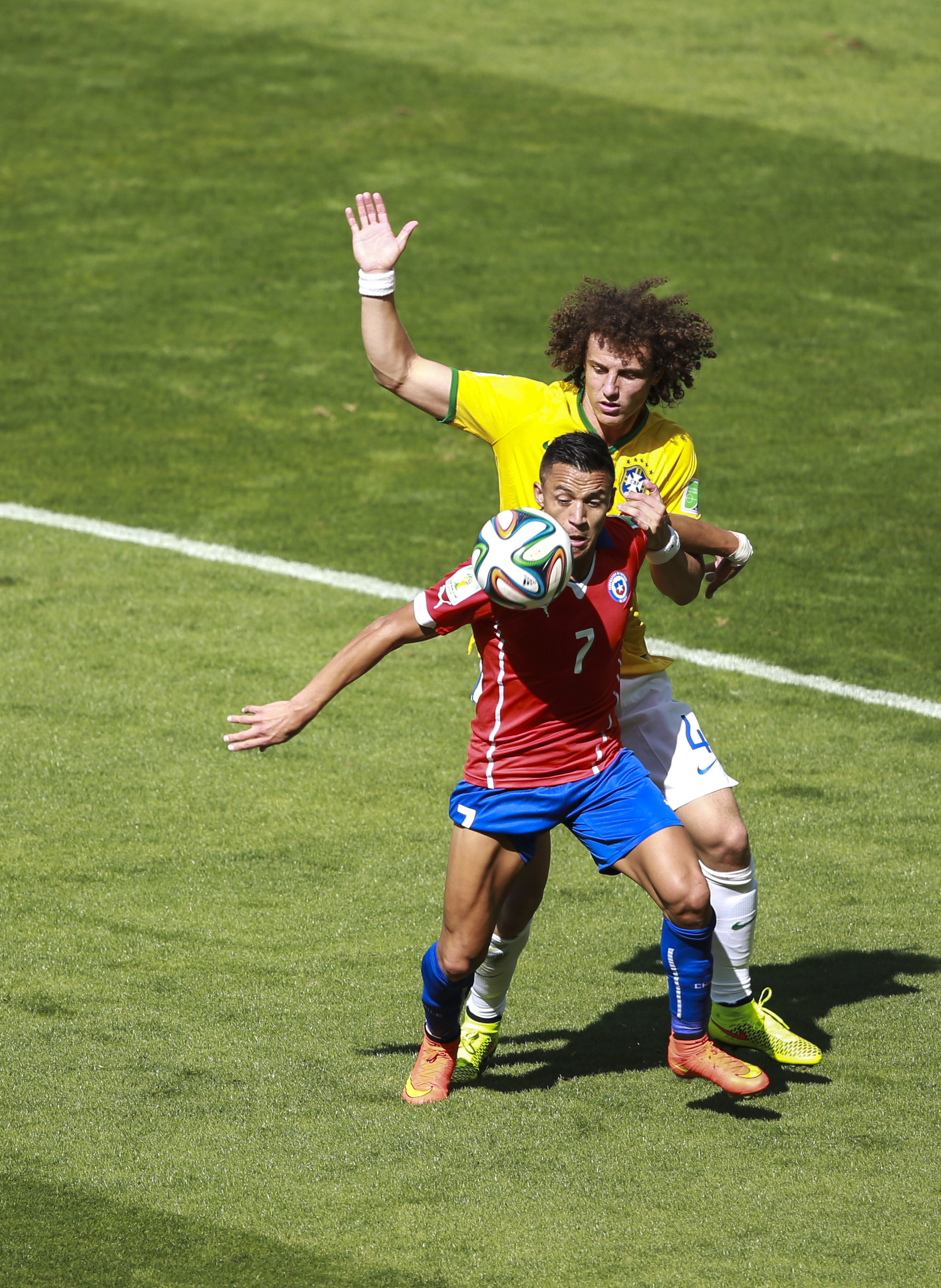 Brazil vs. Chile in Mineirão